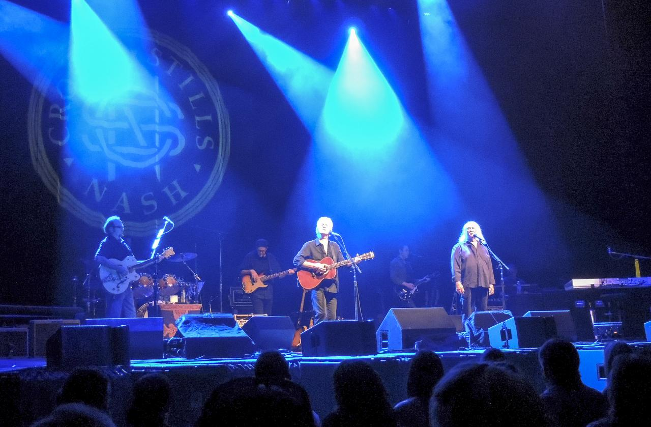 Crosby, Stills & Nash!